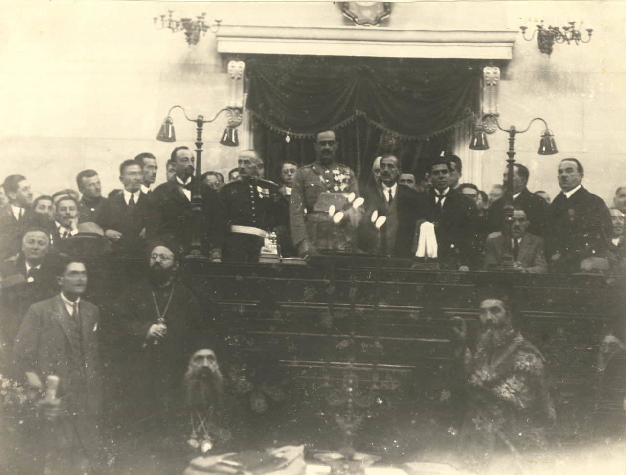 1924 - Nikolaos Plastiras gives back the power to civilian politicians